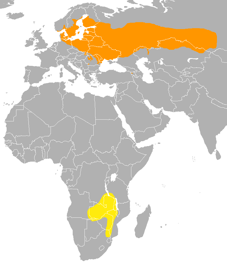 Distribution map of thrush nightingale (Luscinia luscinia). Breeding (summer) range - orange, Non-breeding (winter) range - yellow